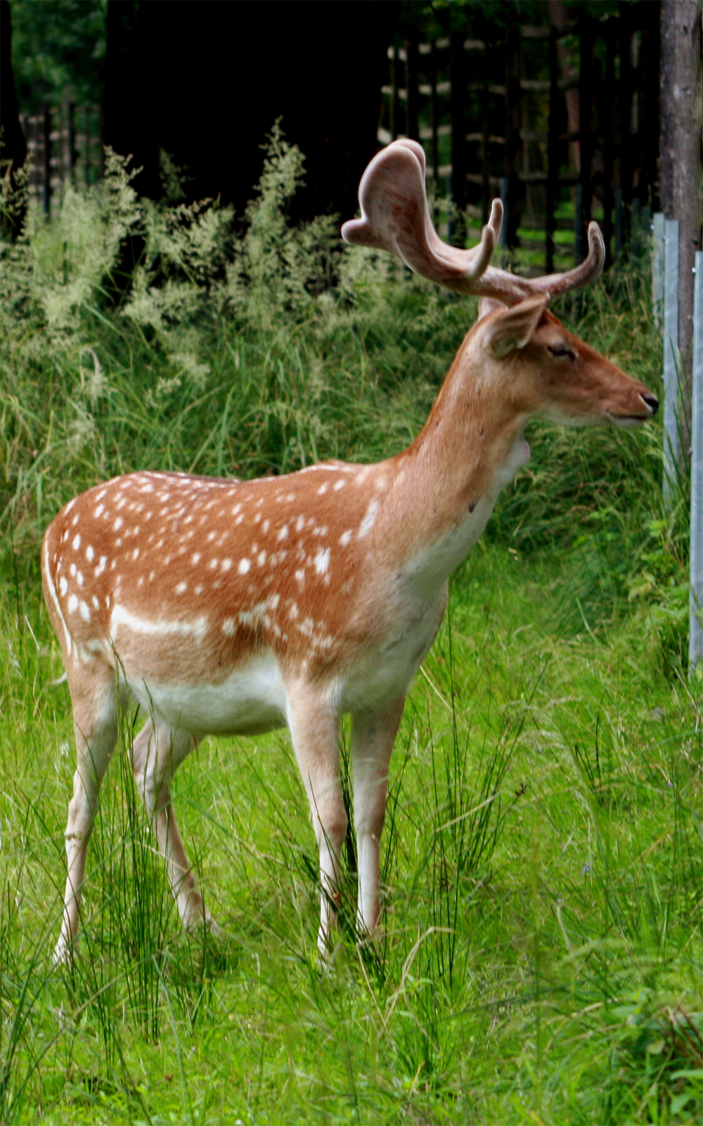 Fallow Deer at Častolovice Castle, Czech Republic.